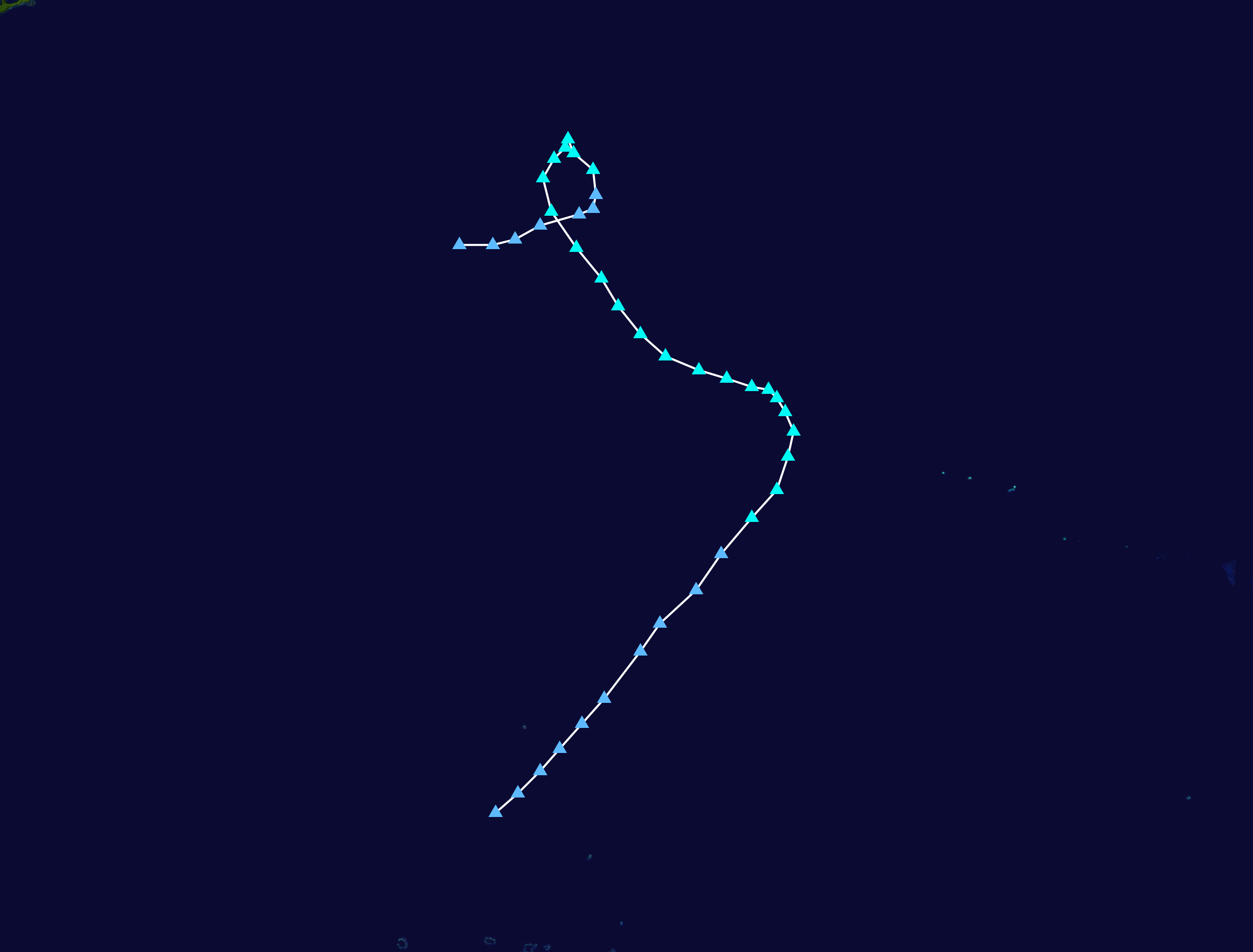 Track map of Subtropical Storm 60W of the 2006 Pacific typhoon season. The points show the location of the storm at 6-hour intervals. The colour represents the storm's maximum sustained wind speeds as classified in the Saffir–Simpson scale (see below), and the shape of the data points represent the nature of the storm, according to the legend below. Saffir–Simpson scale Tropical depression≤38 mph≤62 km/h Category 3111–129 mph178–208 km/h Tropical storm39–73 mph63–118 km/h Category 4130–156 mph209–251 km/h Category 174–95 mph119–153 km/h Category 5≥157 mph≥252 km/h Category 296–110 mph154–177 km/h Unknown Storm type Tropical cyclone Subtropical cyclone Extratropical cyclone / Remnant low / Tropical disturbance / Monsoon depression